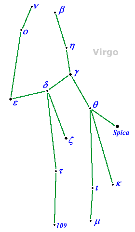 This image presents an alternative way to connect the stars of the constellation Virgo according to the manga Twin Spica. Its orientation places the north pole to the left.